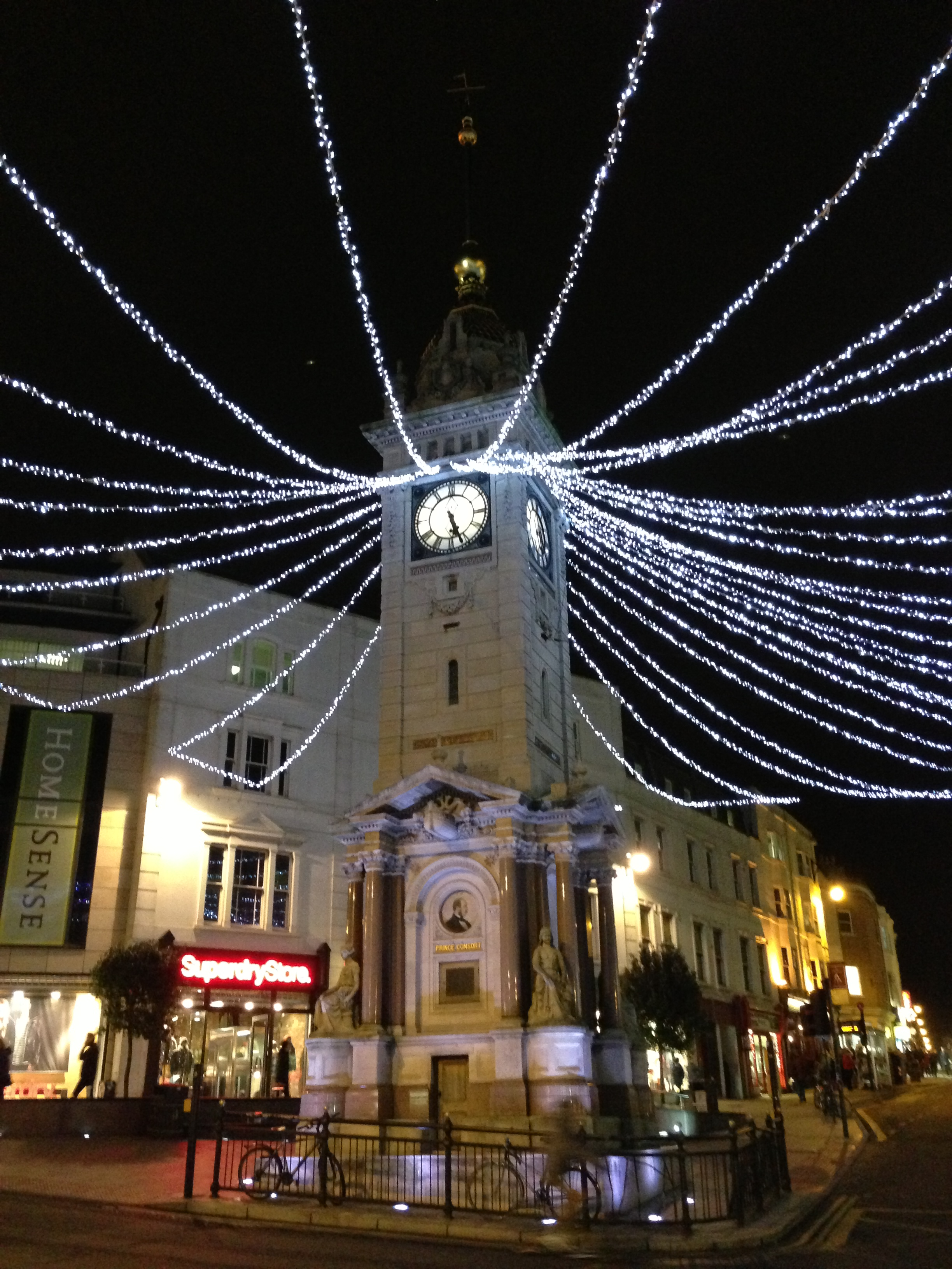 The Clock Tower lit up for the festive season.